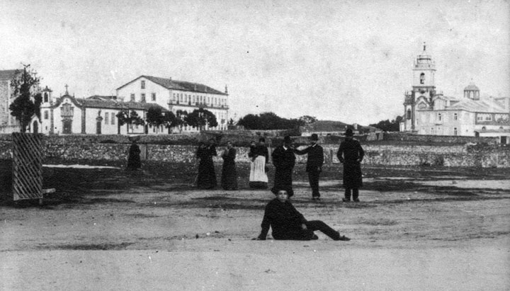 View of Dores Square as seen from a nearby farmfield with the Main Church of Póvoa de Varzim (1100s-1910 AD) and Senhora das Dores Church (rebuilt 18th cent.)